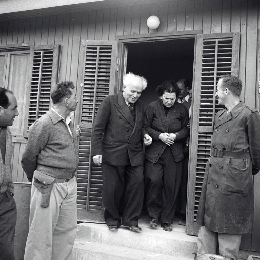 David and Paula Ben-Gurion, People of Israel